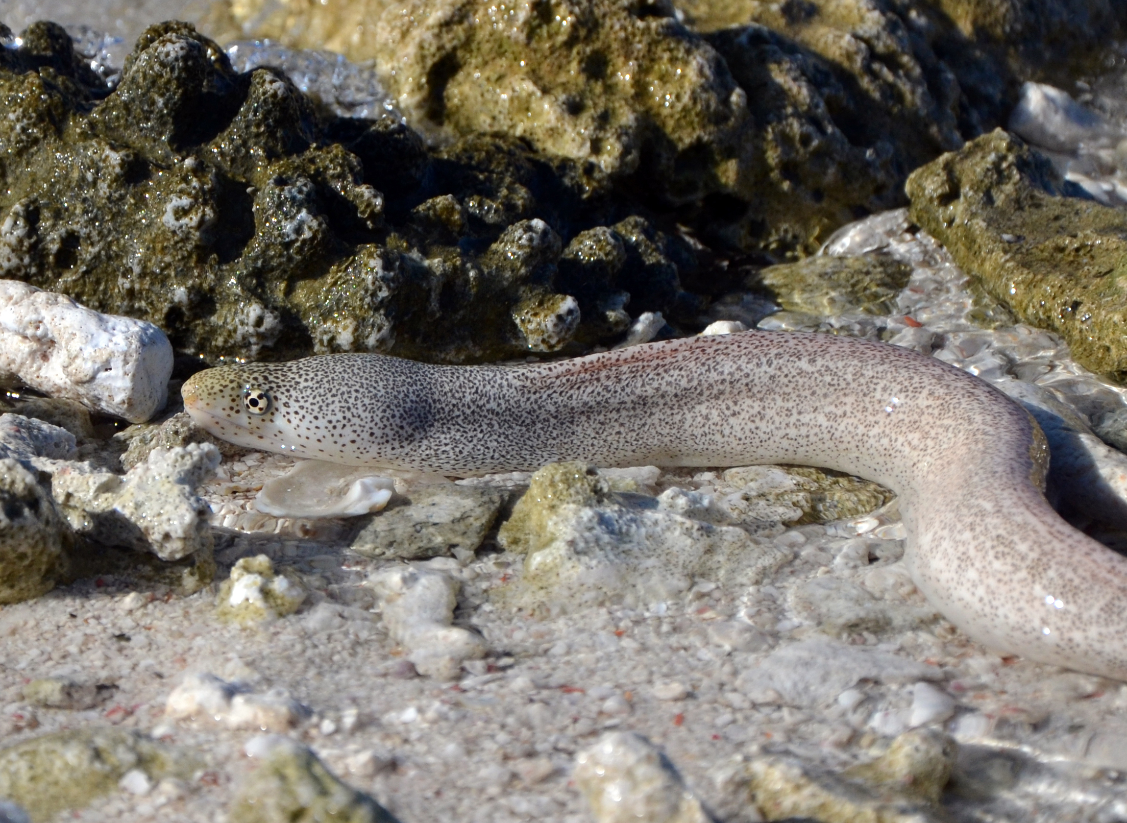 A peppered moray (Gymnothorax pictus), identifiable by the 4 dark spots around its pupil, hunting at low tide in Bathala (Maldives).